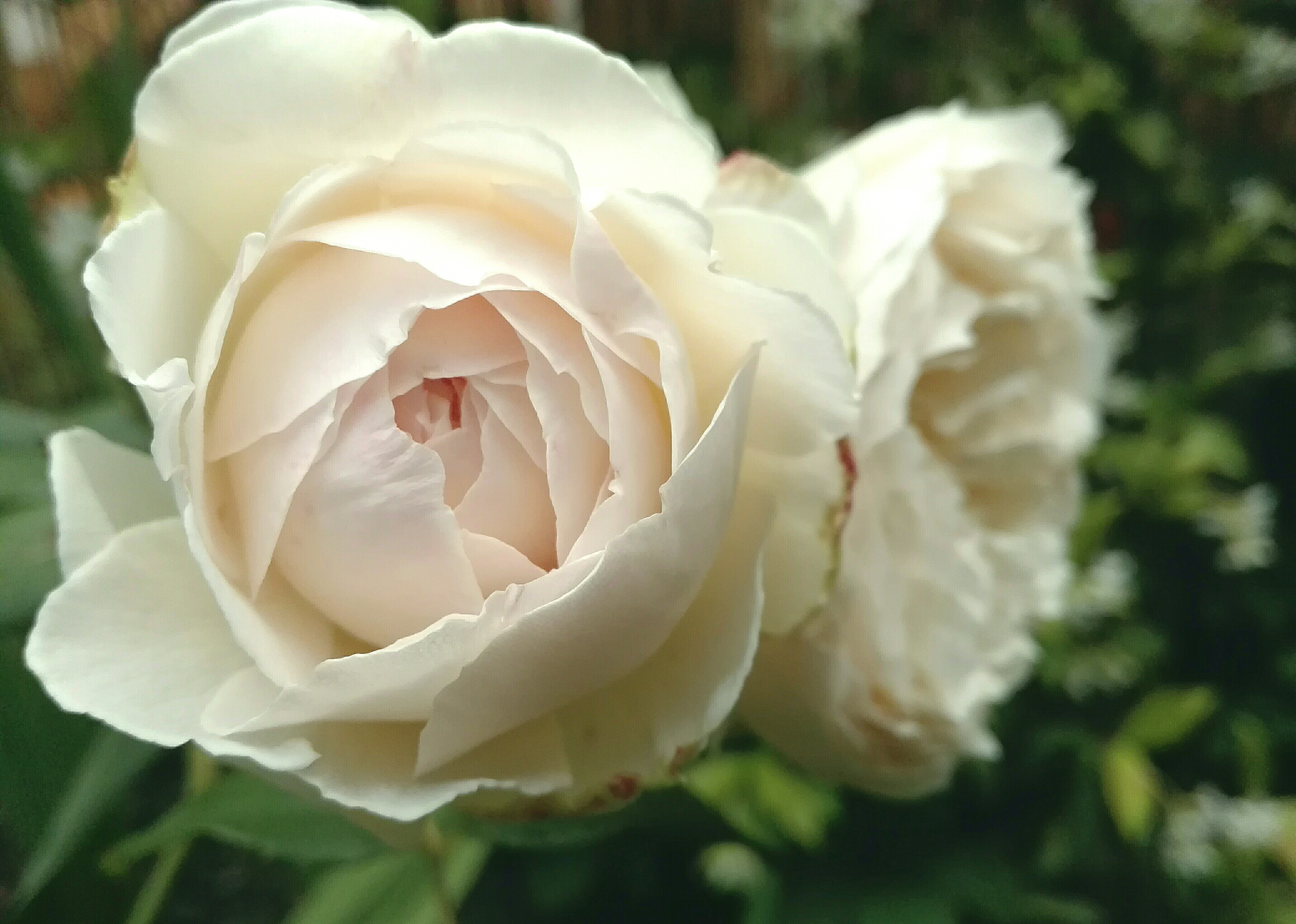 Claire Austin, english rose, 2007